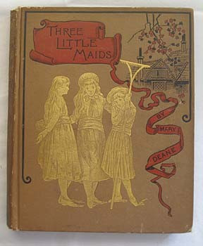 Three Little Maids by Mary Bathurst Deane . Published in 1889 by D. Lothrop Company: Boston - Mary Bathurst Deane (1843 – 13 April 1940) was an English novelist